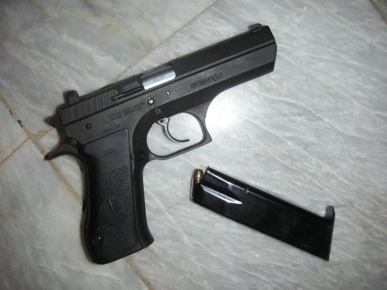 Jehrico 941F 9 mm pistol